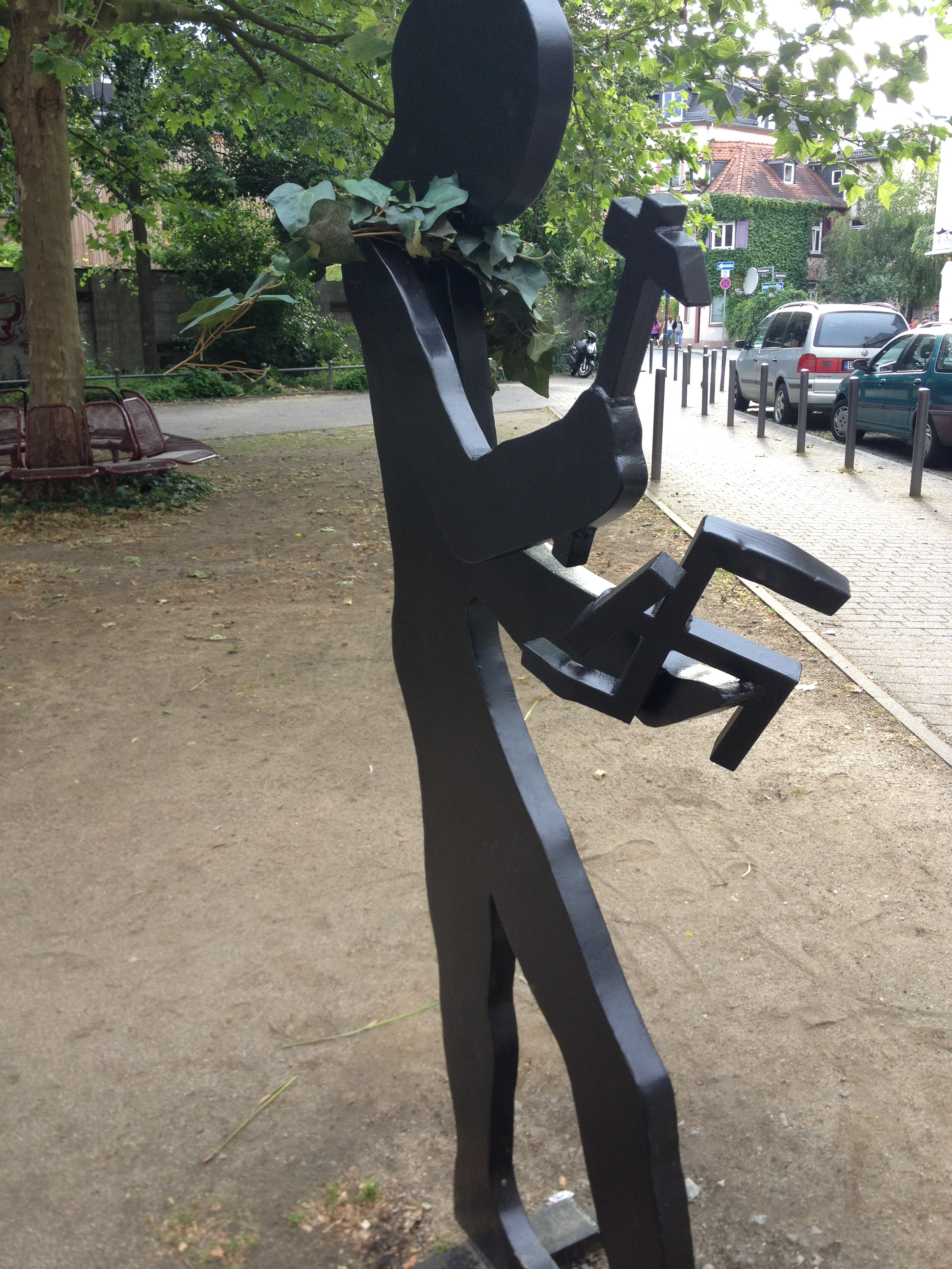 The new Hammering Man at the Hülya-Platz, Frankfurt am Main.